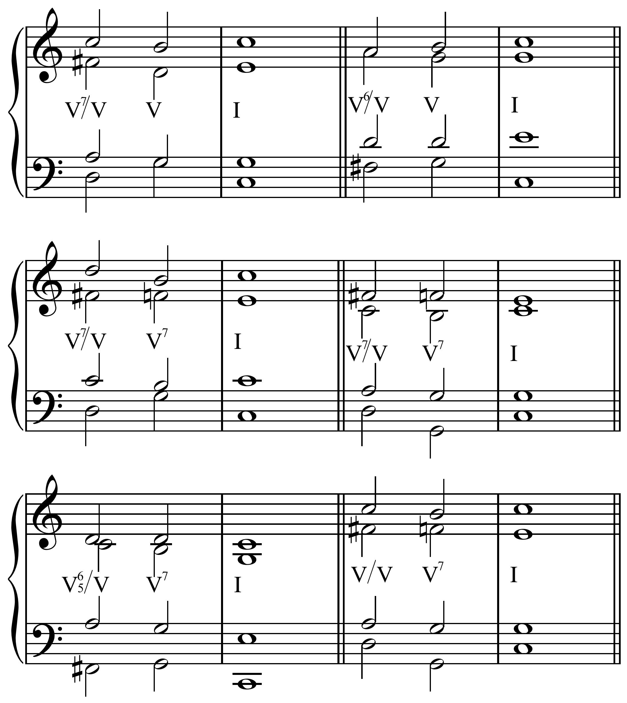 Voice leading of secondary dominant progressions. Example. Benward & Saker (2003). Music: In Theory and Practice, Vol. I, p.269. Seventh Edition. ISBN 978-0-07-294262-0. Bach. Benward & Saker (2003), p.274. Reduction from Chopin. Benward & Saker (2003), p.276. Reduction from open guitar chords. Reduction from Bach. Benward & Saker (2009). Music: In Theory and Practice, Vol. II, p.74. Eighth edition. ISBN 9780077254940. Example. Benward & Saker (2009), p.195.